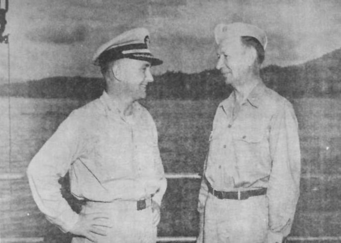 Commodore Ray Tarbuck, Chief of Staff and Rear Admiral Albert G. Noble, USN, Former Chief of Staff and later Commander Amphibious Group Eight